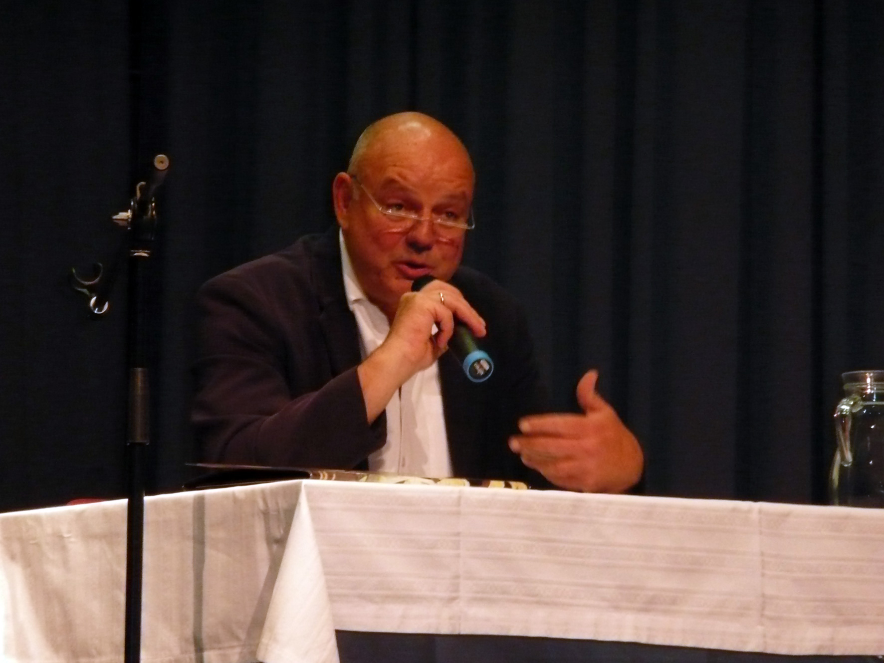 Wolfgang Boeck at a reading of the book "Zu Lasten der Briefträger" (roughly translated: "Adversely Affecting The Postmen")